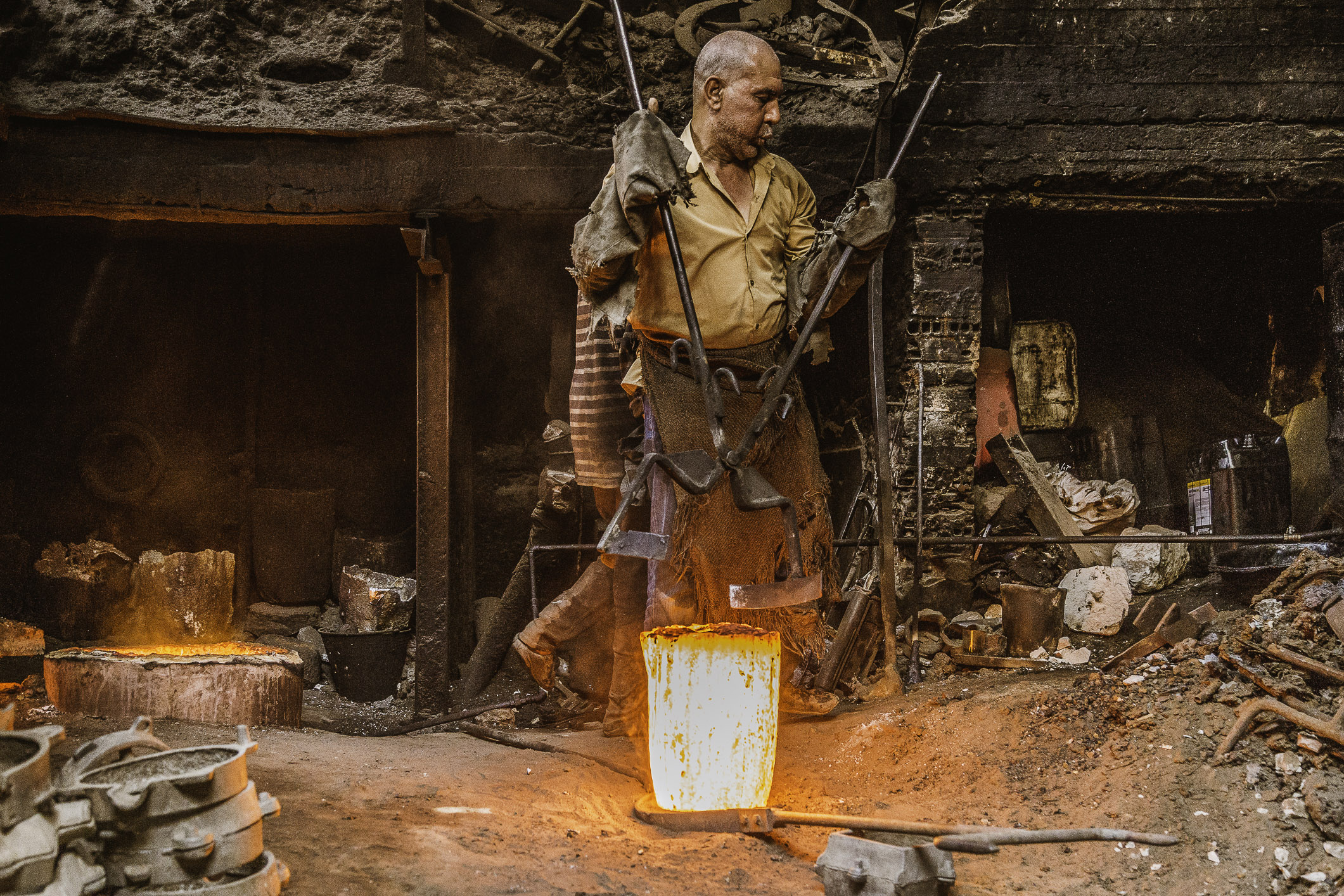 Working in a foundry during preparation for molten iron This is an image of "African people at work" from Egypt